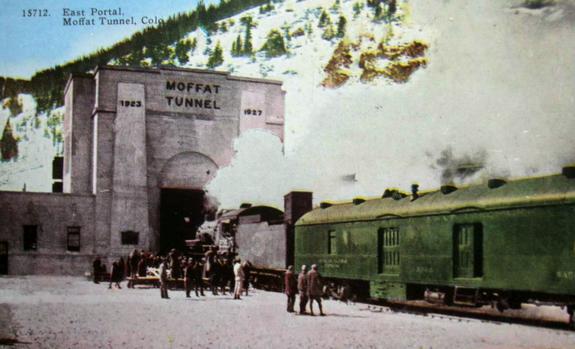 Photo postcard of a Denver and Salt Lake train entering the east portal of the Moffat Tunnel.